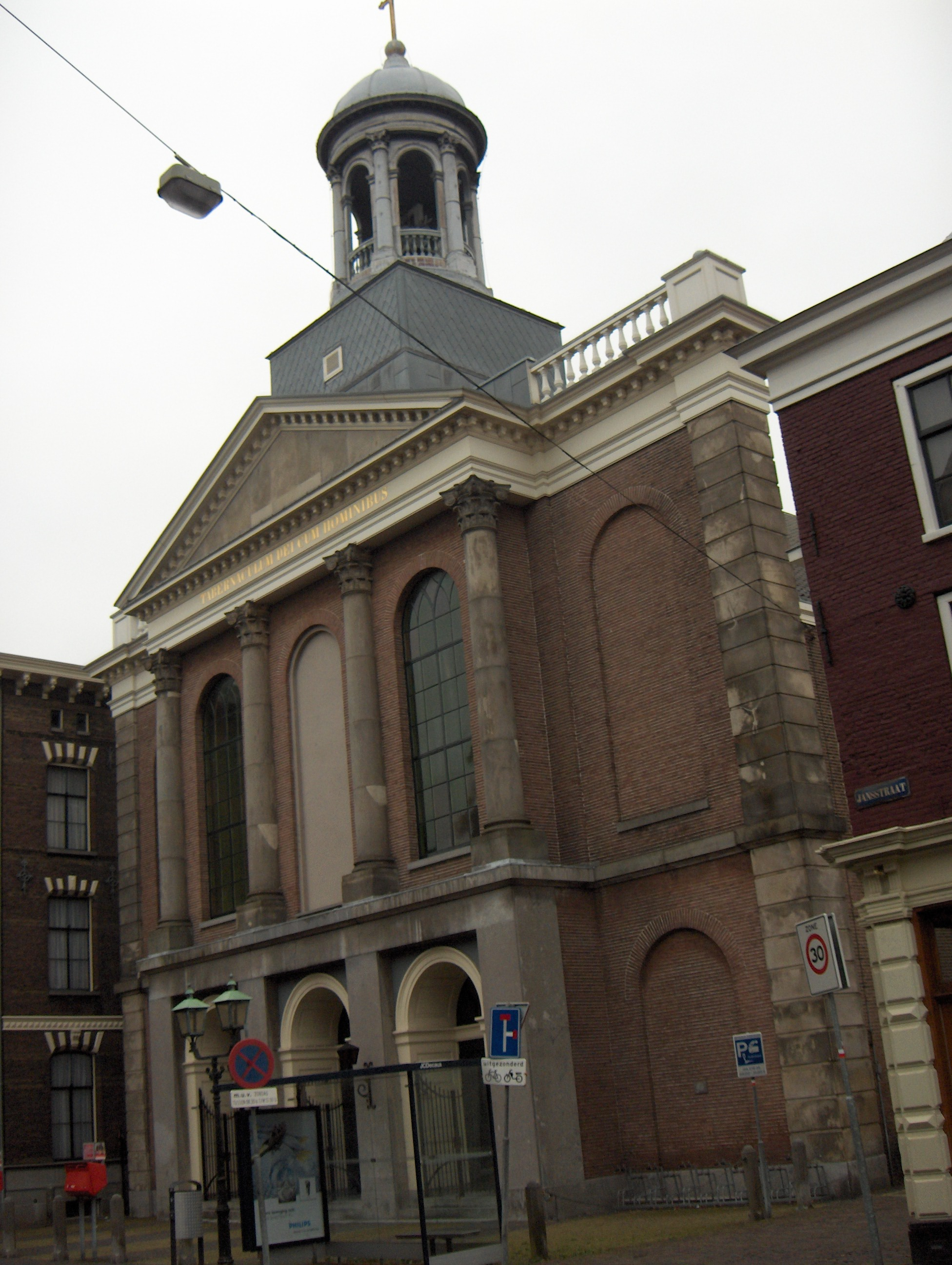 Sint Josephkerk in Haarlem, Netherlands. Adres: Jansstraat 41. Religion: Katholic Build between 1841 - 1843 Style: neo-classisism